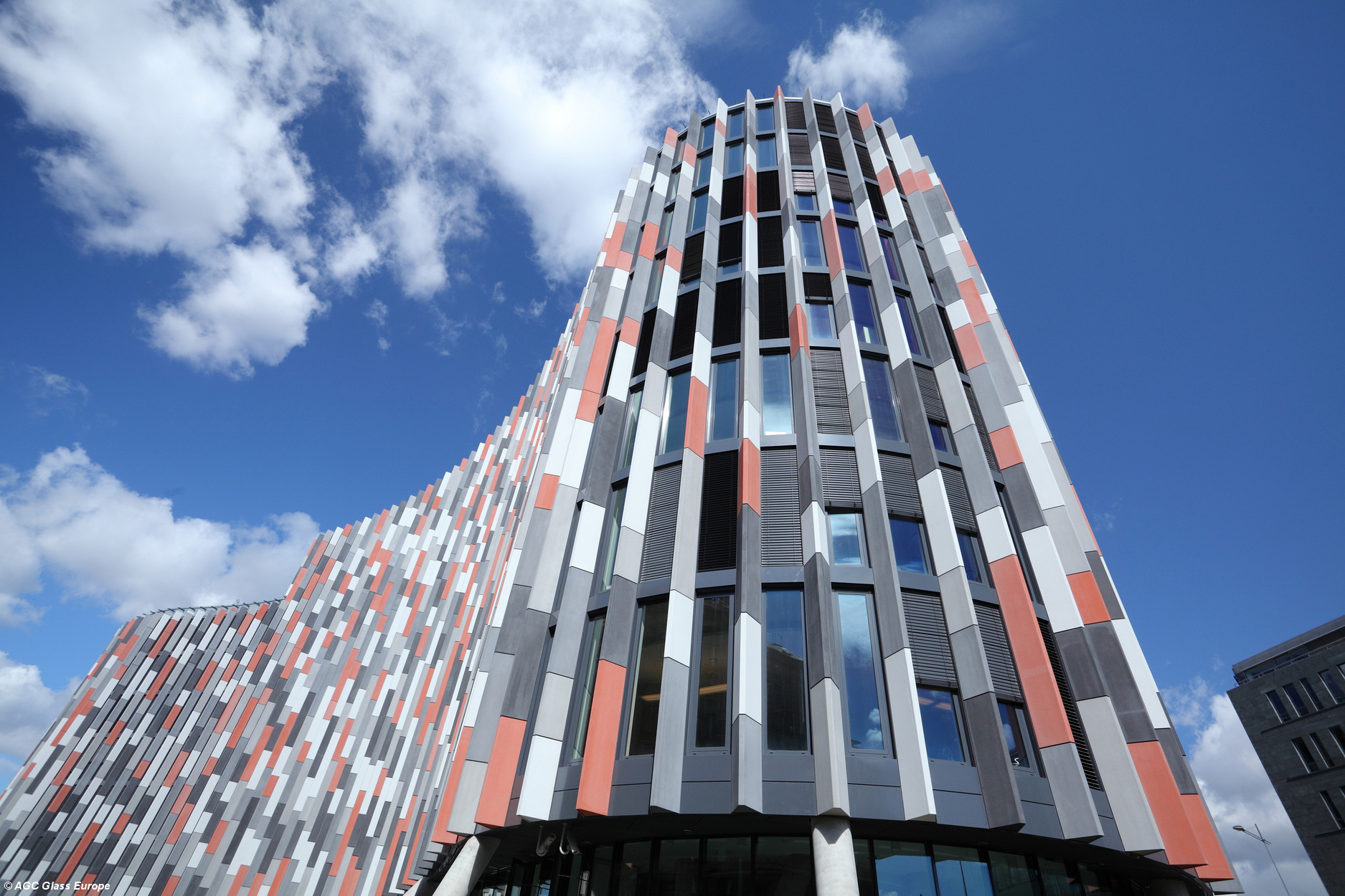 Main Point Karlin Building Location: Prague - Czech Republic Architect: DaM Architects Glazing amount: 7000 m² Remarks: MIPIM Award 2012 for the Best Office and Business Development Product: 7000 m² of AGC's Planibel Low-E Energy N Photographer: Hubert Hesoun Photo Year: 2012